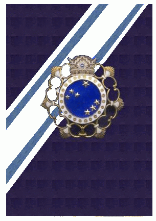 Order of the Pleiades or The Seven Sisters